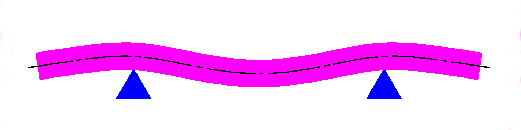 Bending of beam supported at Bessel points